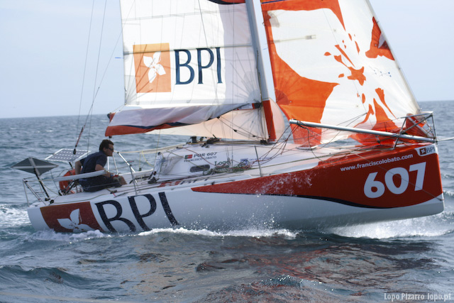 Picture of the skipper Francisco Lobato in the Regata Naval de Sesimbra 2008